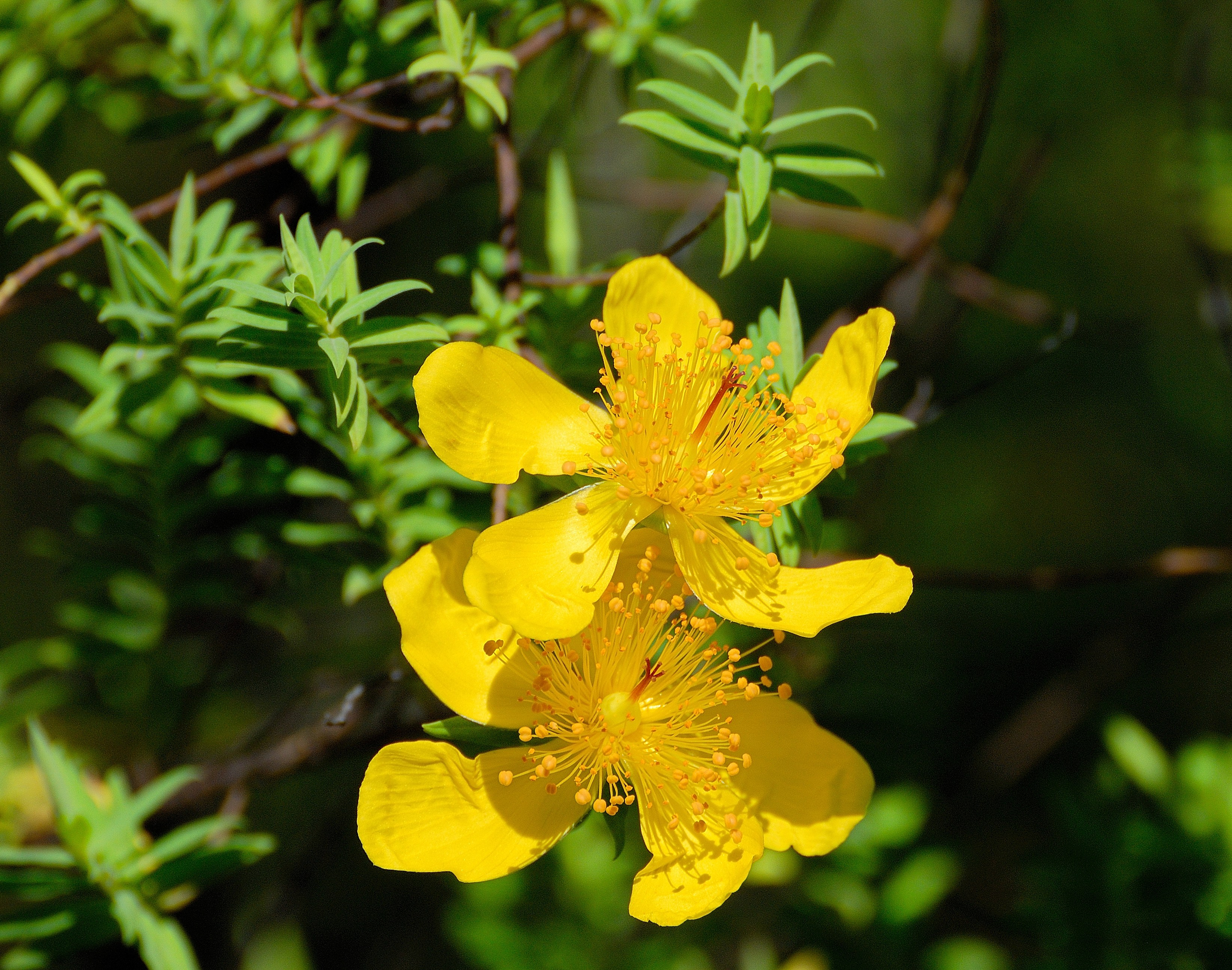 Spring flowers of a Curry Bush, Jan Celliers Park, Pretoria